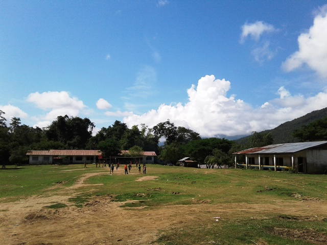 Students are playing in Khokmanh primary school